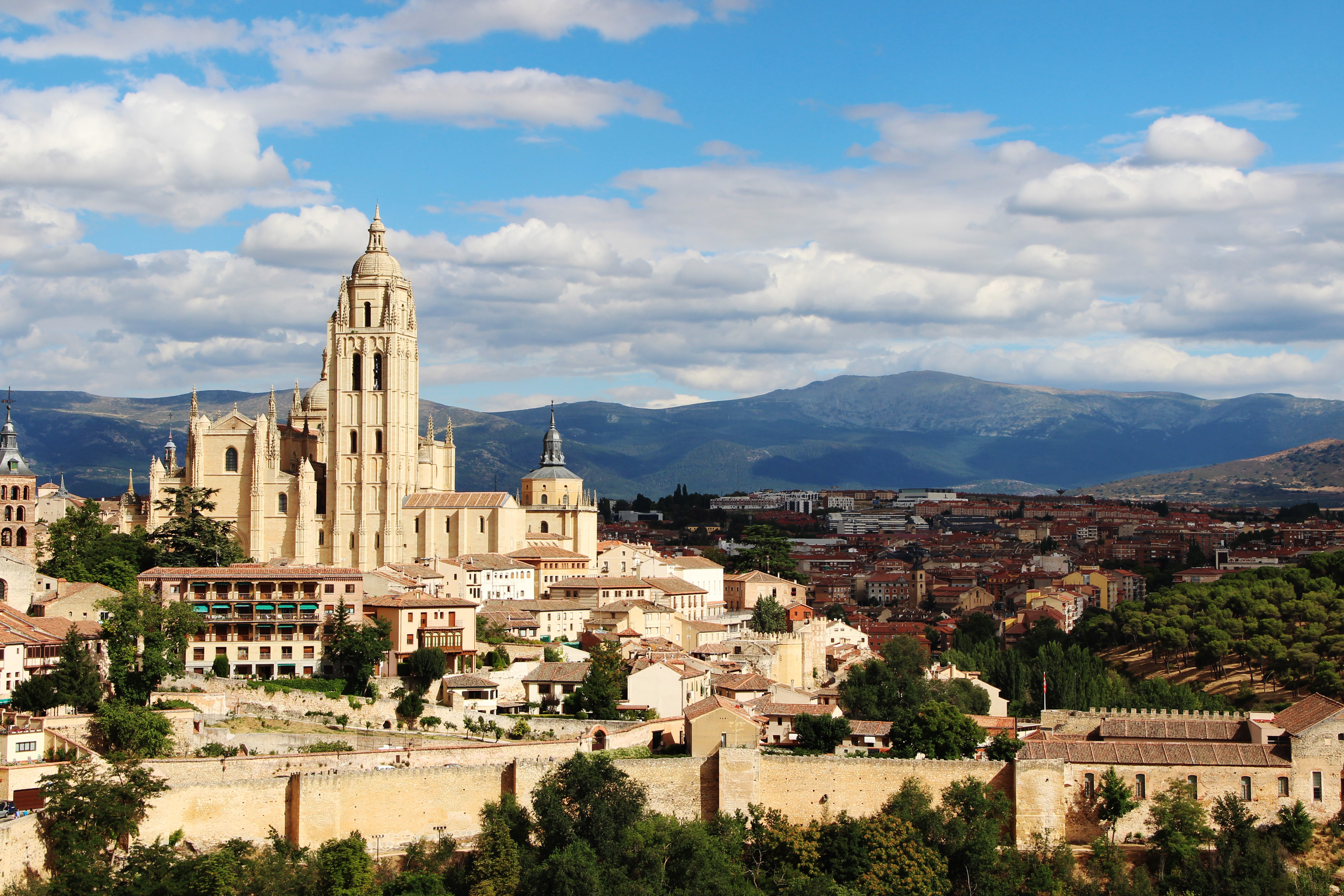 View of the Cathedral of Segovia from the Alcazar